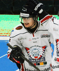 Ice hockey player Johannes Salmonsson of Linköping HC in 2013.